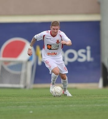 Gary Muir, Sept 2012